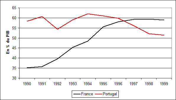 Government Debt of France and Portugal in the 1990's. Data : Eurostat